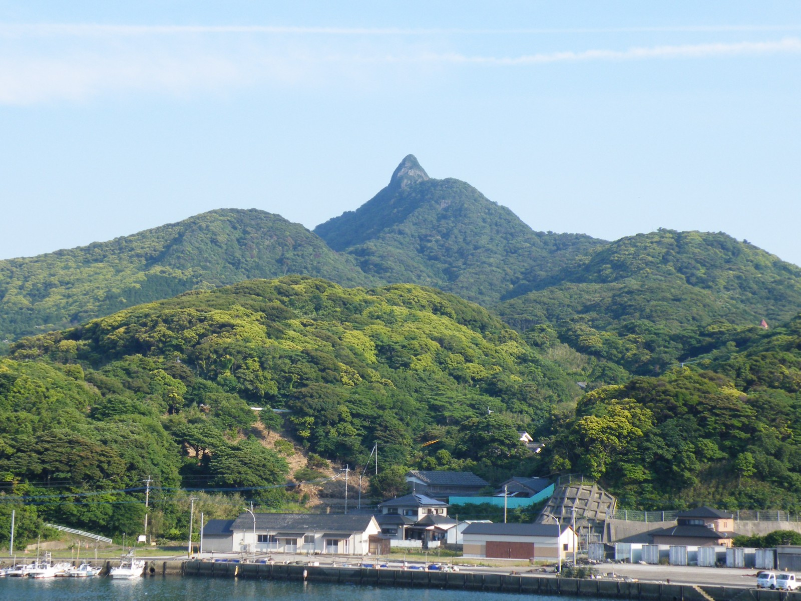 Mount Shijiki seen from the NNW.